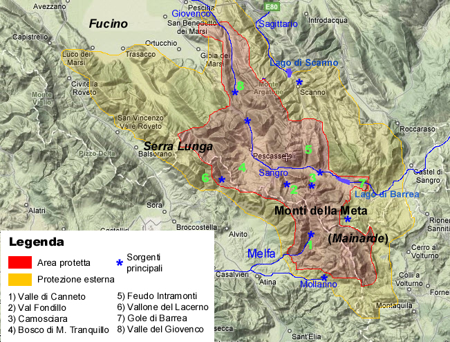 Map of National Park of Abruzzi, Lazio and Molise